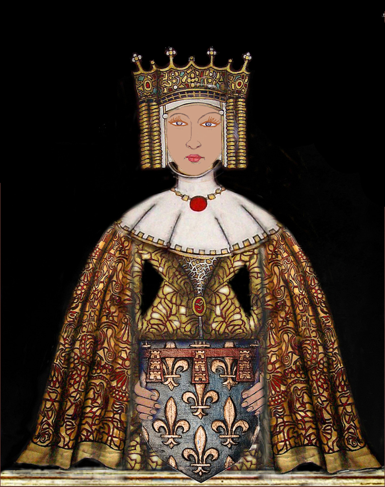 Blanche d'Artois, Queen of Navarre